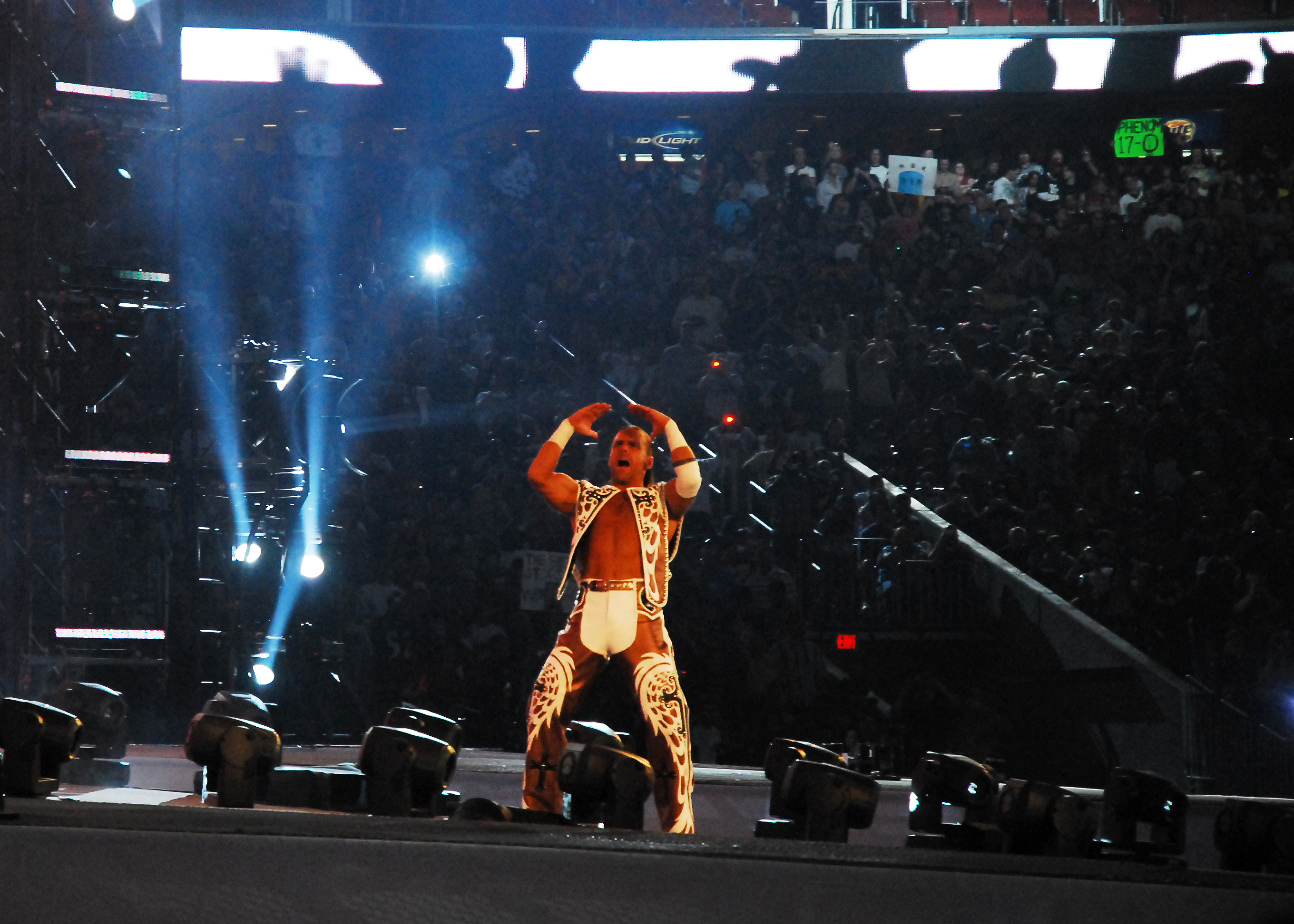 Shawn Michaels on the Ramp